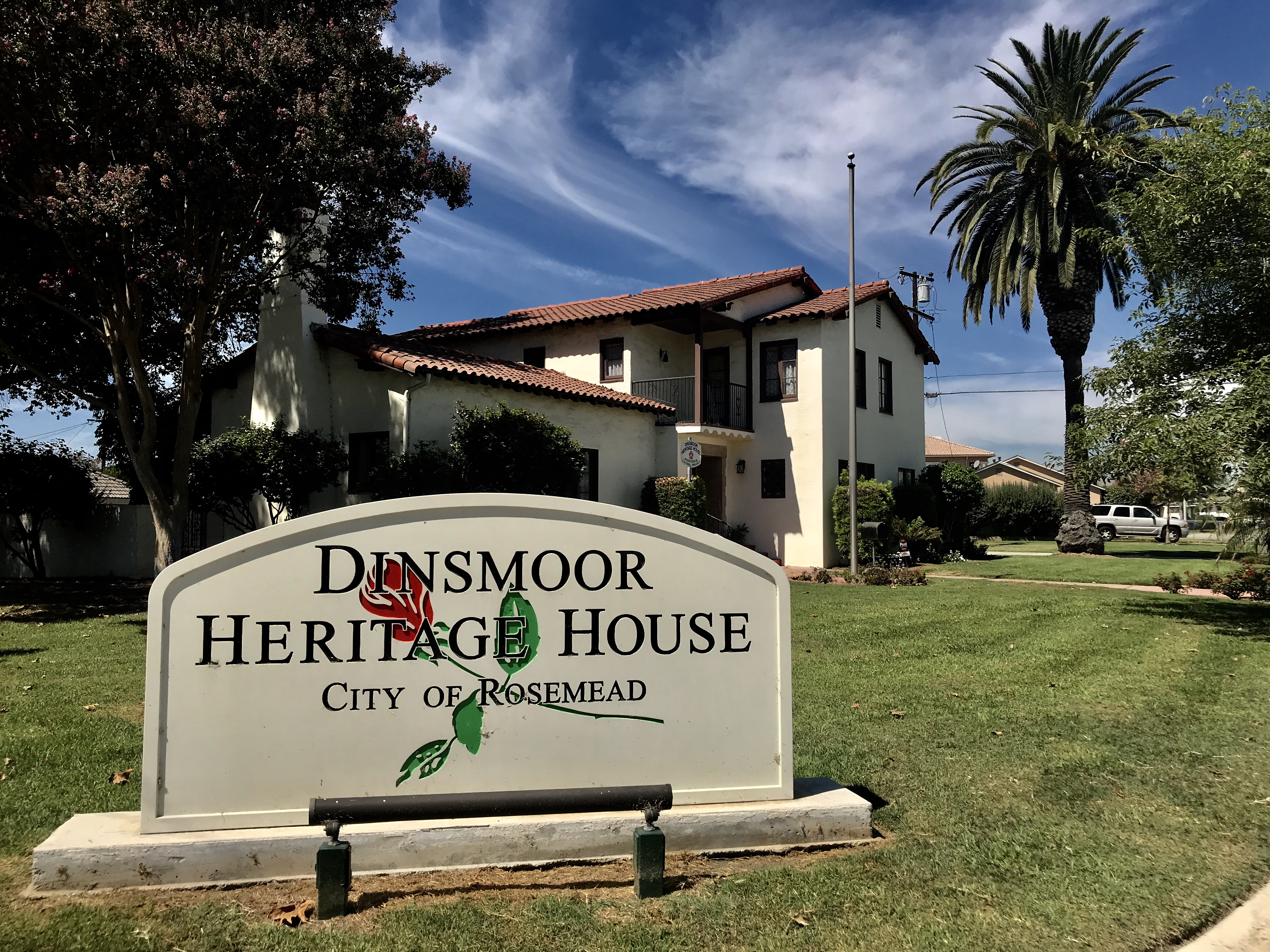 The sign and home can be spotted 1 block south of Valley Blvd. Its located to the west of Temple City Blvd where Steele and Ellis meet. Rosemead California.